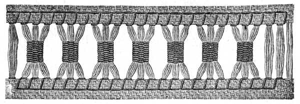 Illustration for section 3 in Encyclopedia of Needlework. Fig. 78, Open-work insertion.